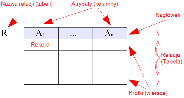 An illustration of Relational model concepts, based on Benutzer:Fragment's Bild:Begriffe relationaler Datenbanken.png.